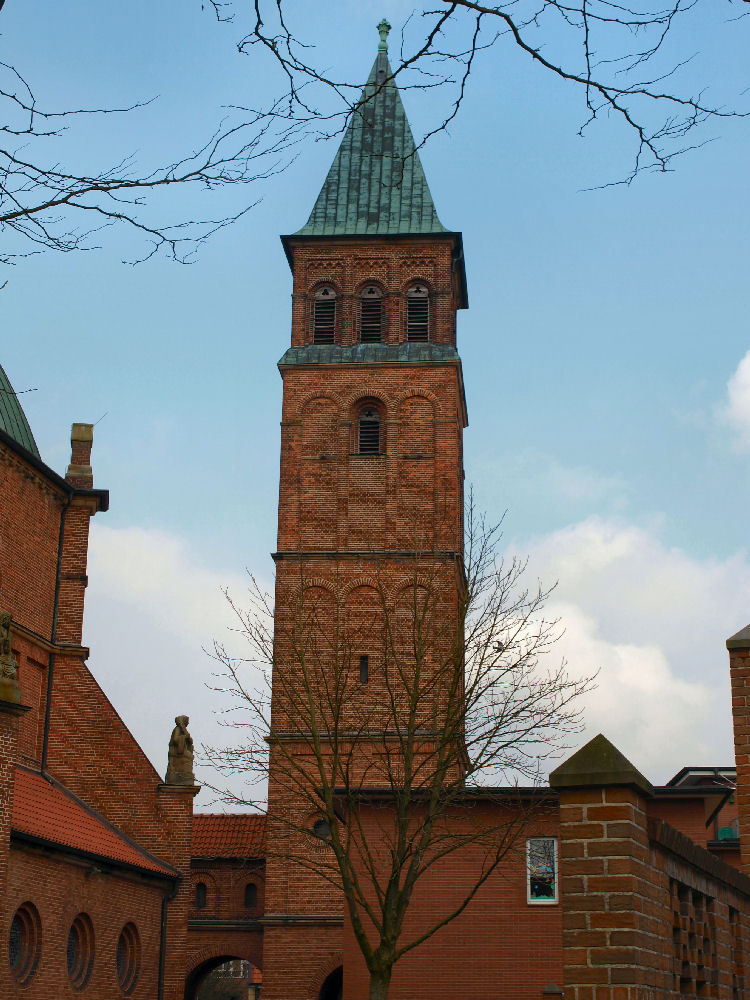 St Augustinus, Nordhon